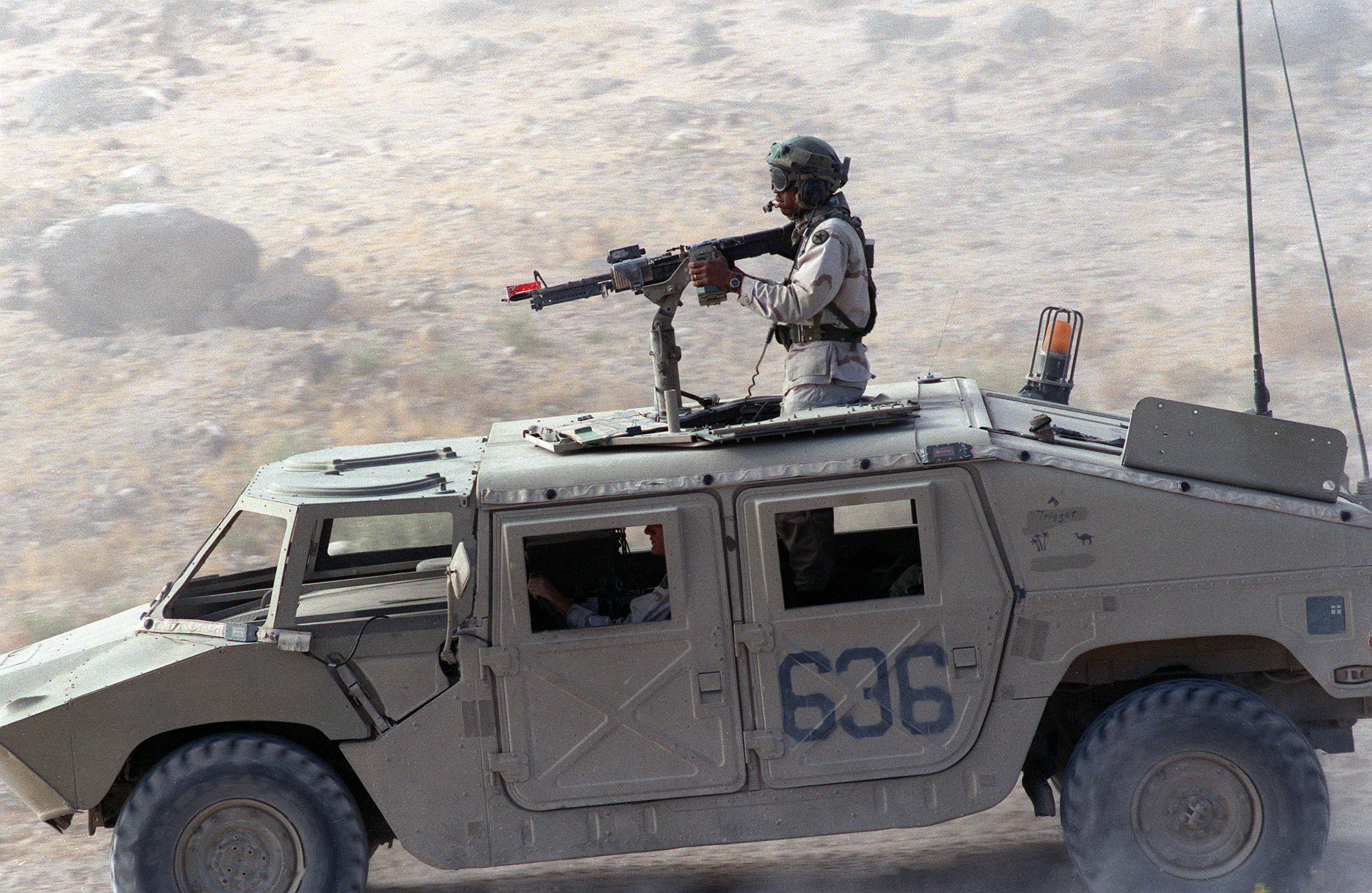 Sergeant David Price runs the machine gun in a High-Mobility Multipurpose Wheeled Vehicle (HMMWV), visually modified as an amphibious scout car, (BRDM), opposing force, in a battle exercise accomplished by 177th Armored Brigade at the National Training Center.Location: FORT IRWIN, CALIFORNIA (CA) UNITED STATES OF AMERICA (USA)